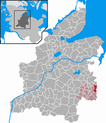 Locator maps of municipalities in Schleswig-Holstein - District Rendsburg-Eckernförde